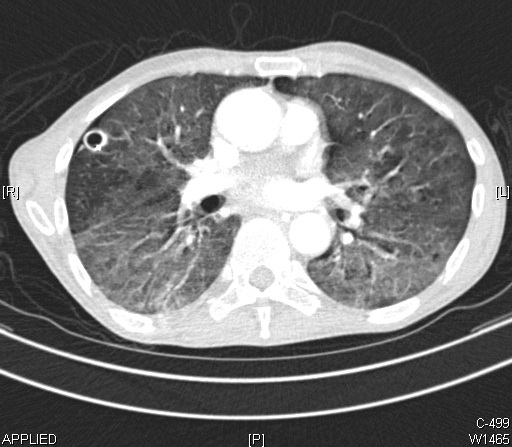 The thick-walled cavitary lesion in the right lung is an abscess, The diffuse ground glass infiltrates that are present in both lungs represent pneumonia.